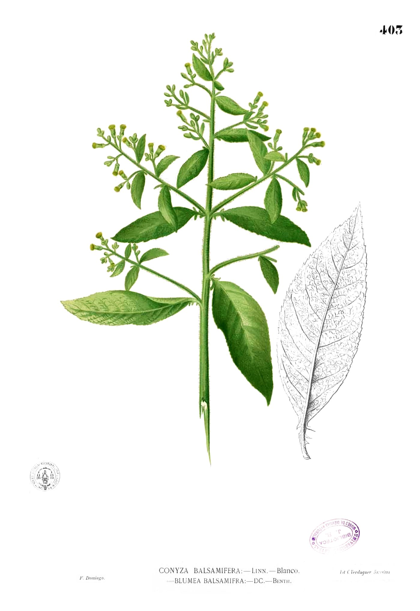 Plate from book